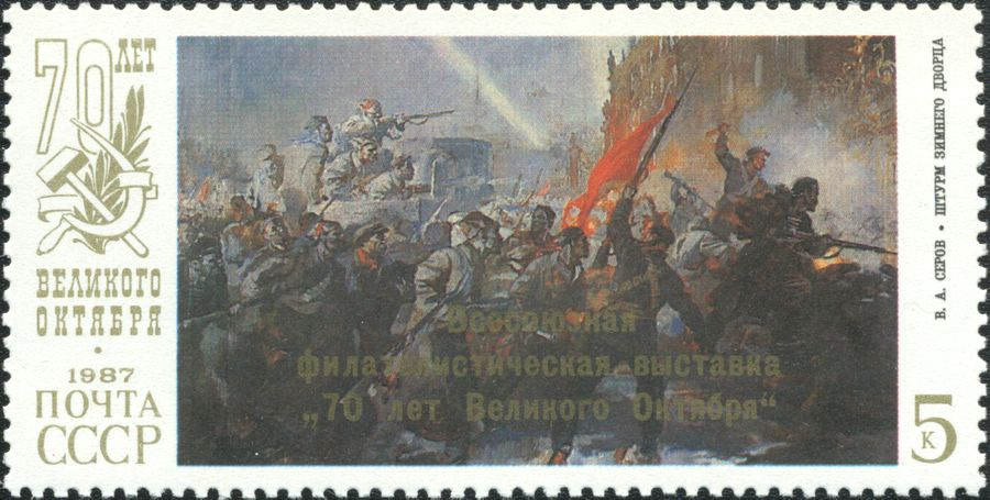 A USSR stamp, All-Union Stamp Exhibition. Date of issue: 17h October 1987. Michel catalogue number: 5761. 5 K. multicoloured. Gold overprint All-Union Philatelic Exhibition “70th Anniversary of Great October Revolution”.